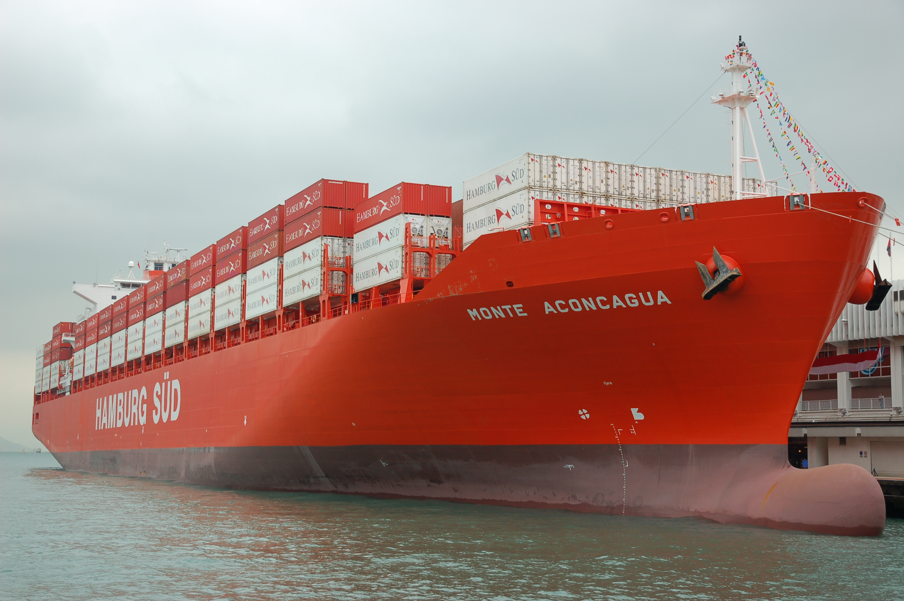 'MV Monte Aconcagua" moored to the Ocean Terminal in Hong Kong for her naming ceremony on Friday May 29, 2009.